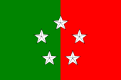 Distintive flag of Portuguese ministers of War (1911 - 1974), maybe today in use by Minister of Defense